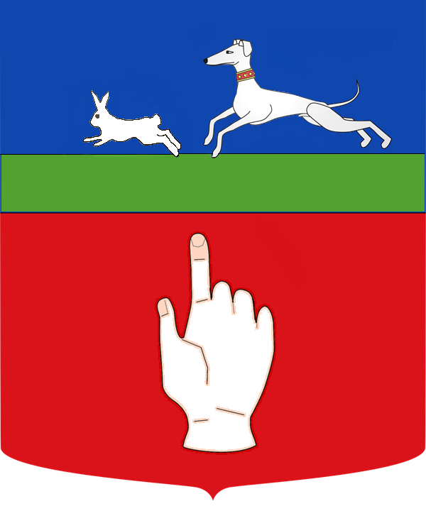 Acquisti shield